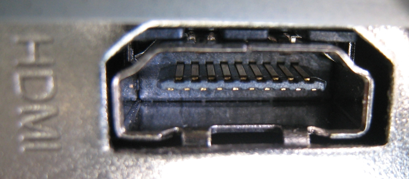 A female HDMI connector